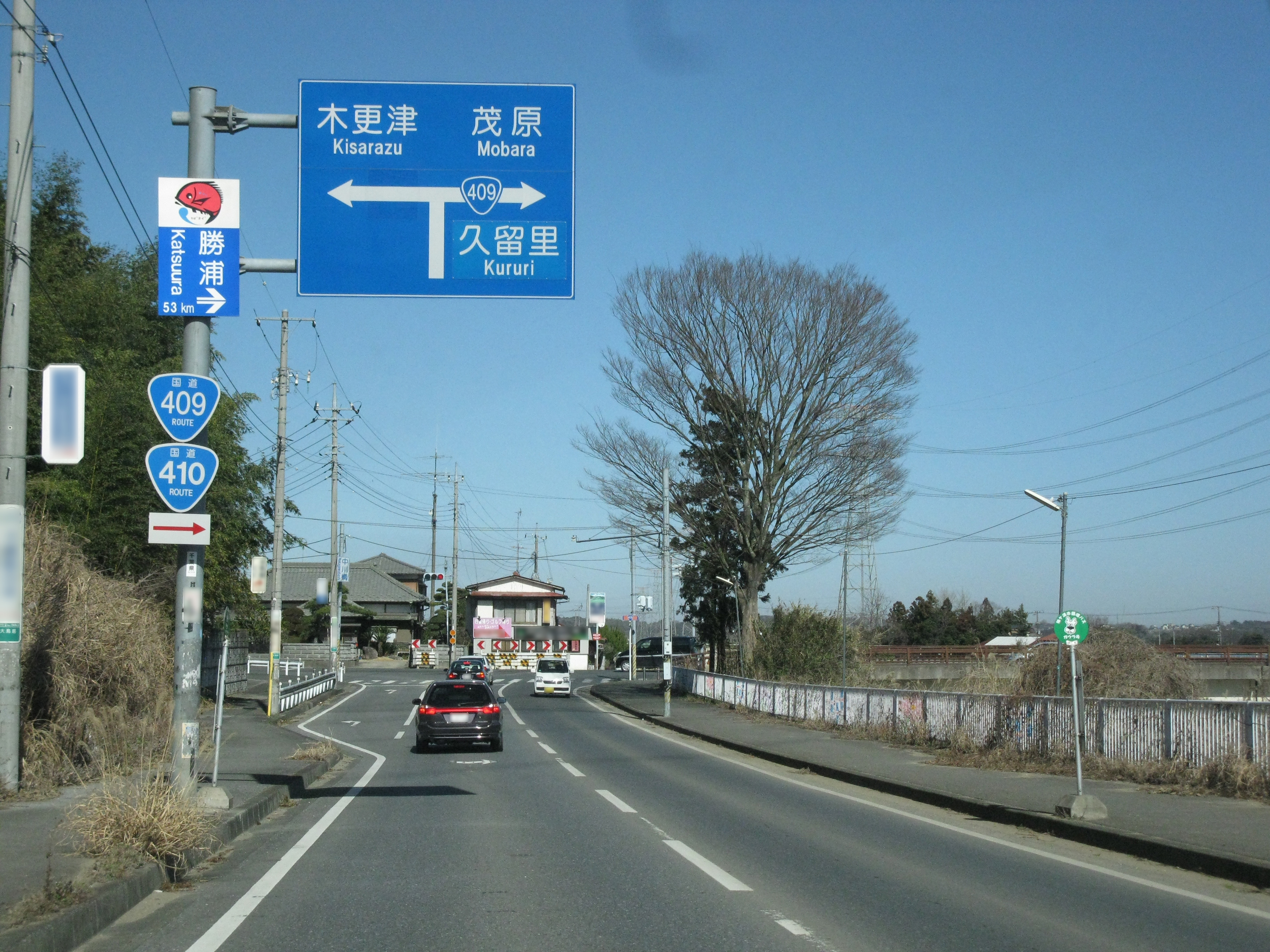 Route 409 at Nakagawabashi crossing (overlap of Route 410)